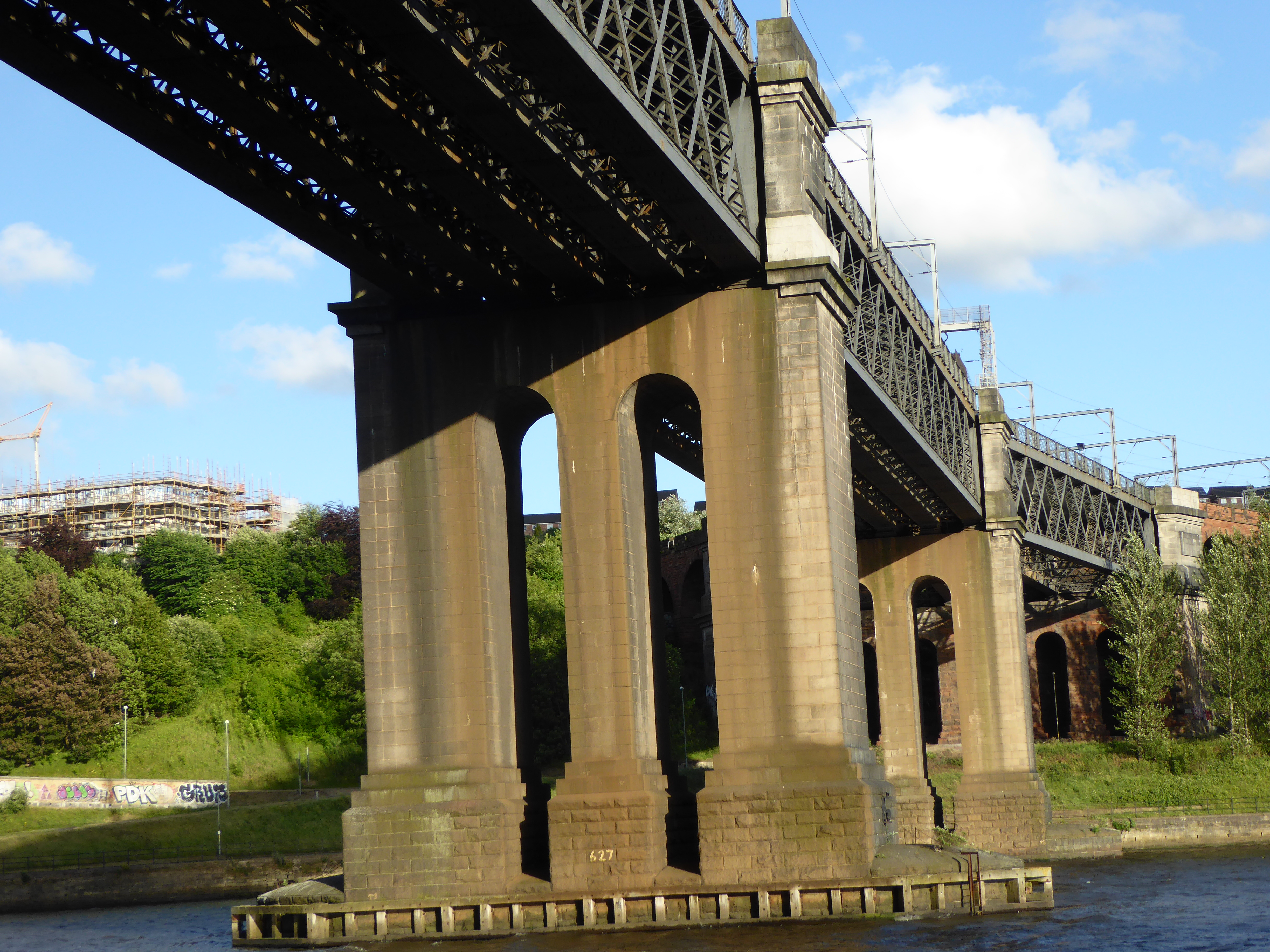 King Edward VII Bridge, Newcastle upon Tyne, Tyne and Wear, England, July 2015